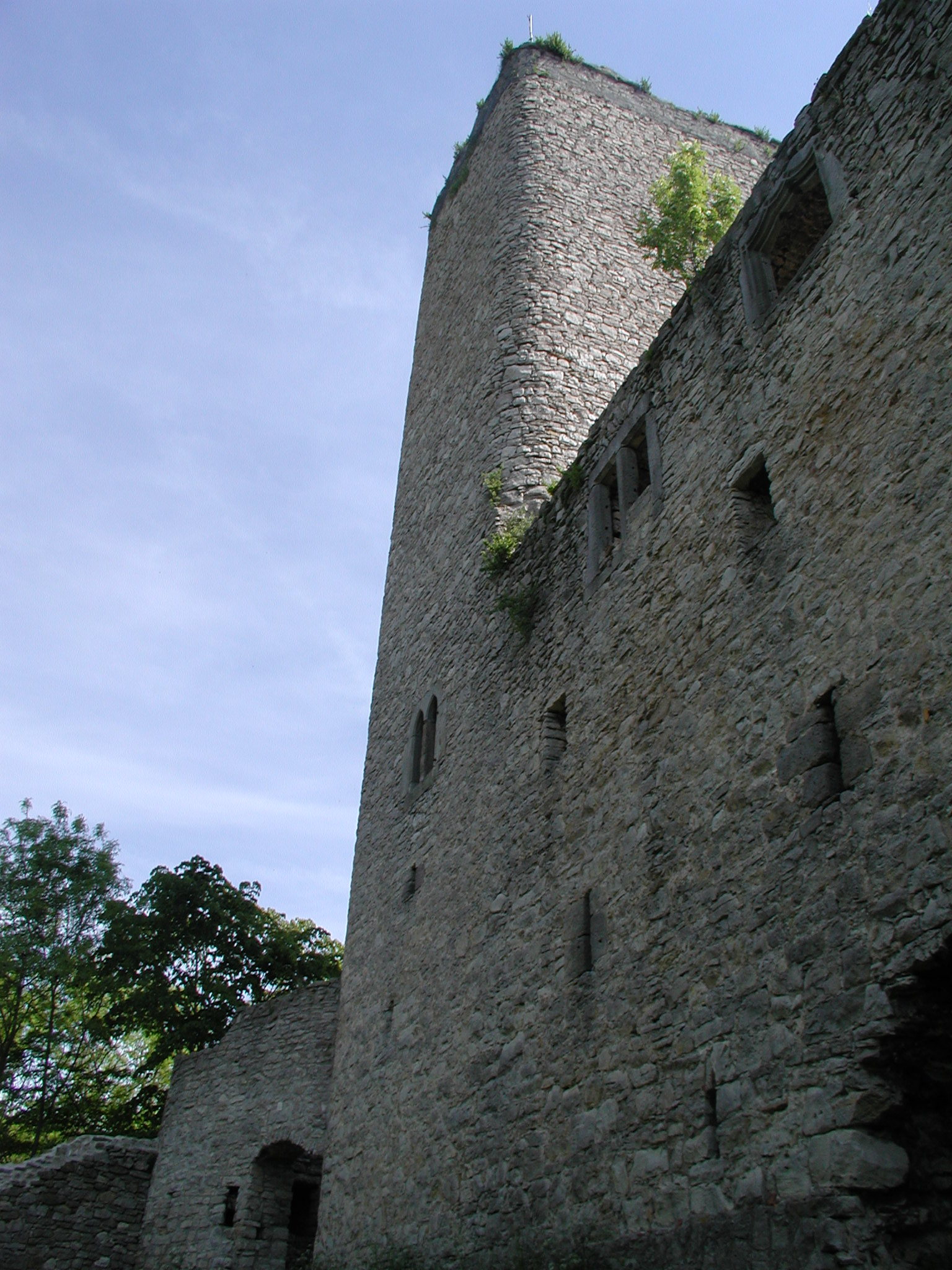 Burgruine Ehrenstein (Ehrenstein Castle) in Thuringia, Germany.